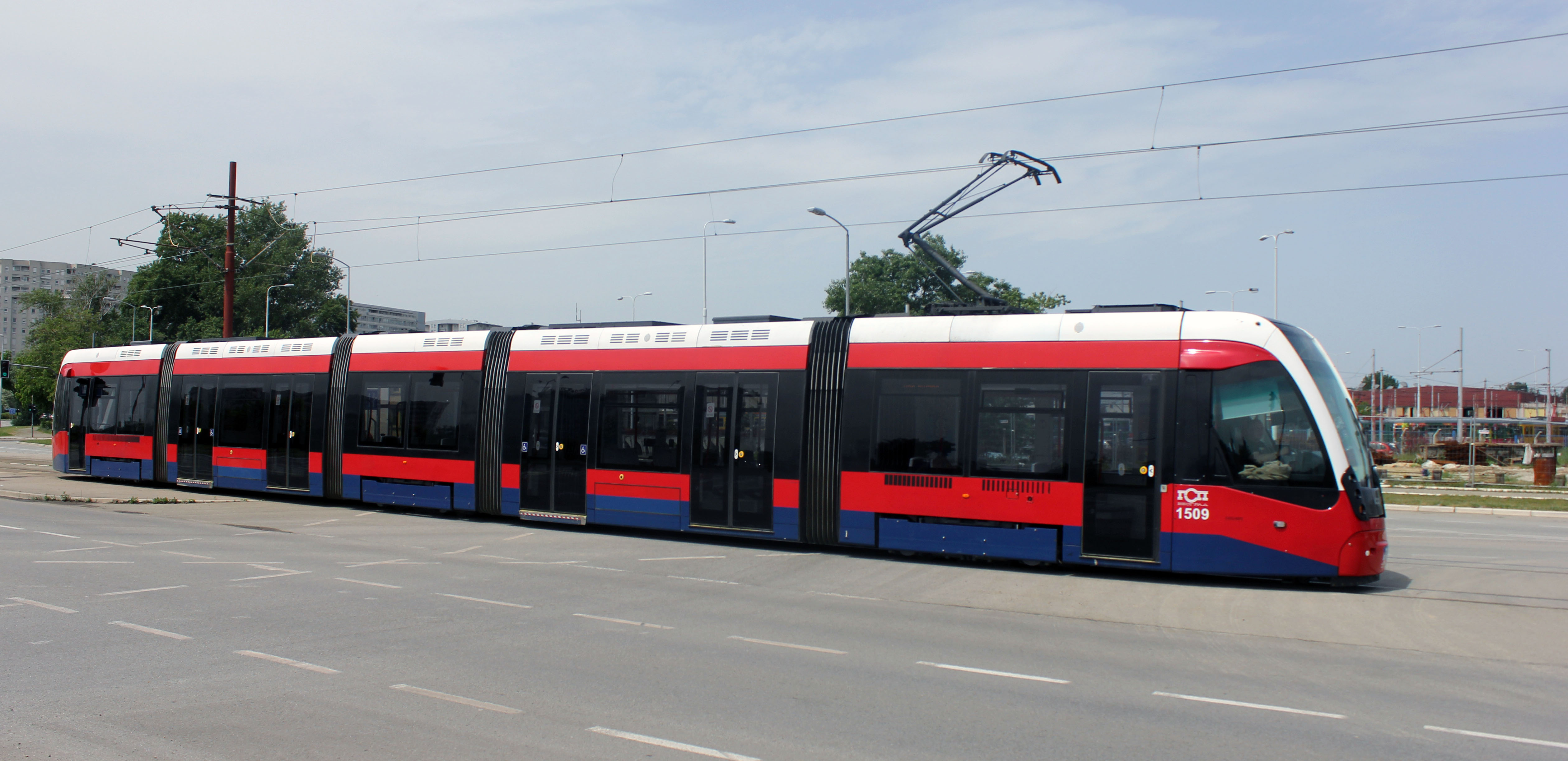 CAF Urbos 3 tram of Belgrade city public transport company (GSP) no. 1509 leaving tram depot.